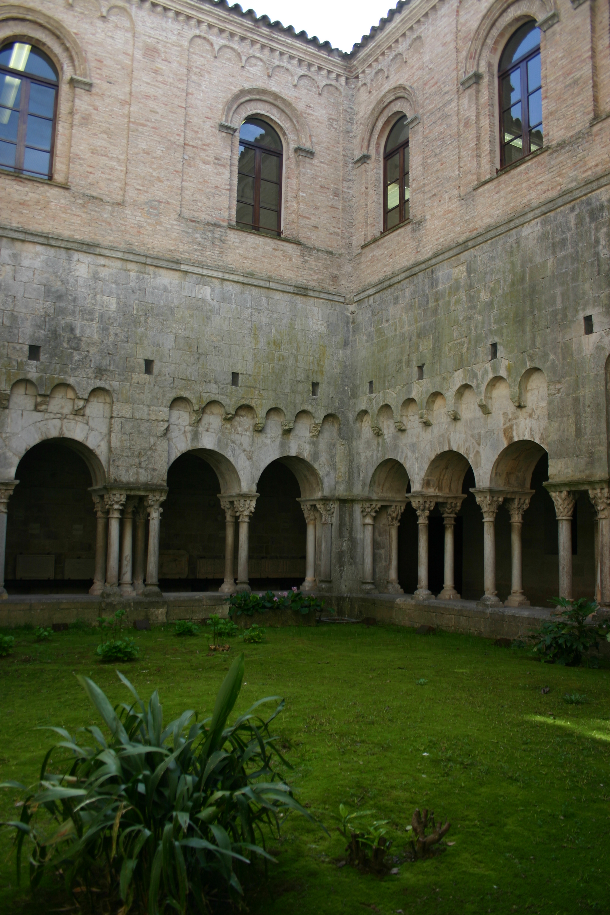 Girona's Arqueology Museum of Catalonia, Catalonia (Spain).